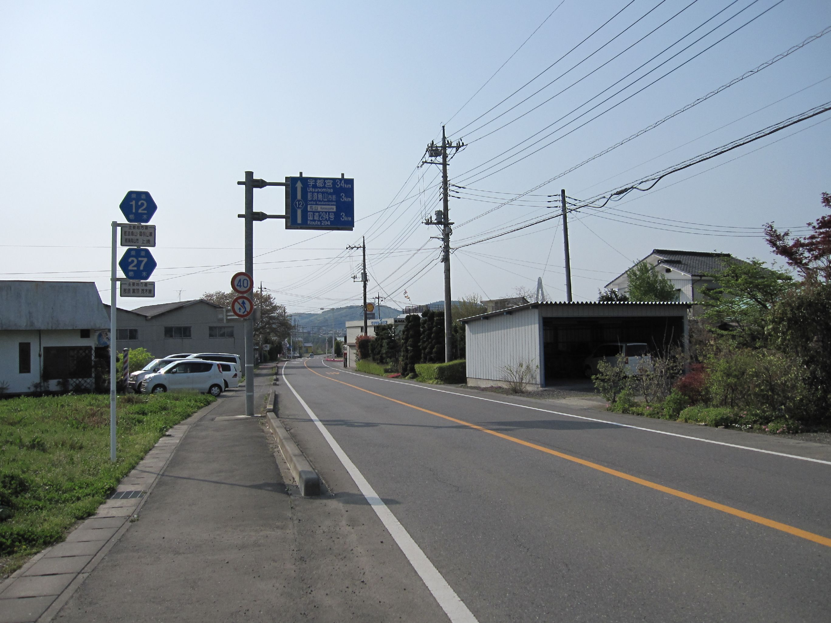 The Tochigi Prefectural Road Route 12 and Route 27 in Kamizakai, Nasukarasuyama City